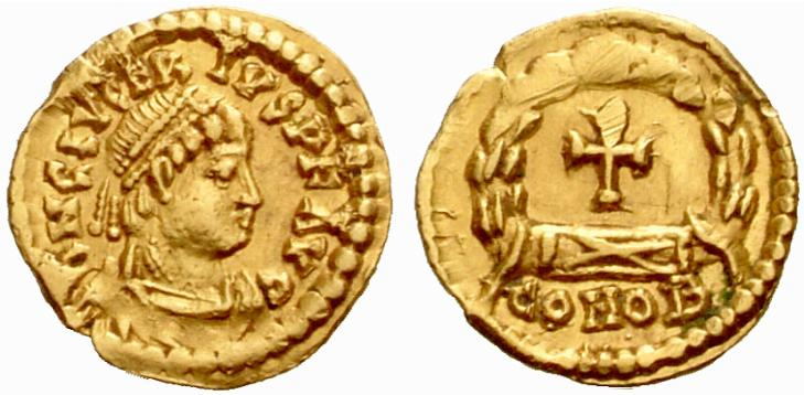 Glycerius, 473-474, Tremissis Roma (?) 473-474, AV 1.43 g. DN GLVCER IVS P F AVG Pearl-diademed, draped and cuirassed bust r. Rev. Cross within wreath; in exergue, CONOB. RIC 3110. Depeyrot 76/1. Lacam 24.